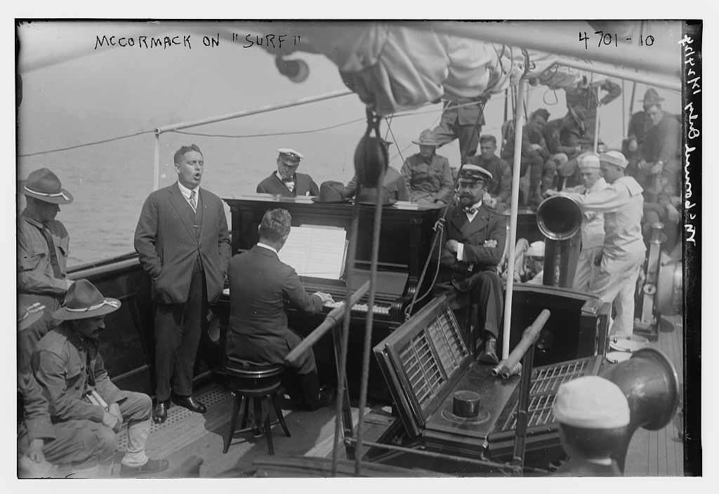 Bain News Service,, publisher. McCormack on "Surf" [between ca. 1915 and ca. 1920] 1 negative : glass ; 5 x 7 in. or smaller. Notes: Title from data provided by the Bain News Service on the negative. Photograph shows Irish American tenor singer John McCormack (1884-1945) singing on a boat. Forms part of: George Grantham Bain Collection (Library of Congress). Format: Glass negatives. Repository: Library of Congress, Prints and Photographs Division, Washington, D.C. 20540 USA, General information about the Bain Collection is available at Higher resolution image is available (Persistent URL): Call Number: LC-B2- 4701-10